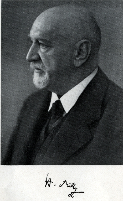 Johann Heinrich Biltz (26. Mai 1865 Berlin, + 29. Oktober 1943 Breslau), son of Karl Friedrich Biltz